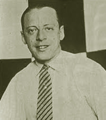 An image of Argentine artist, Benjamín Solari Parravicini (1898-1974).